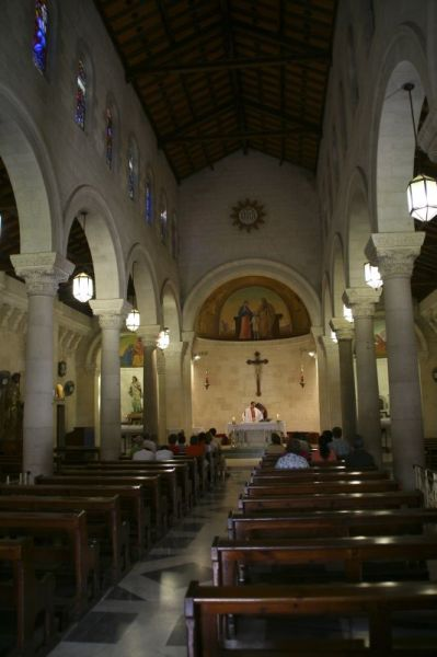 For more pictures and videos of Israel, please visit here. St Josephs Church